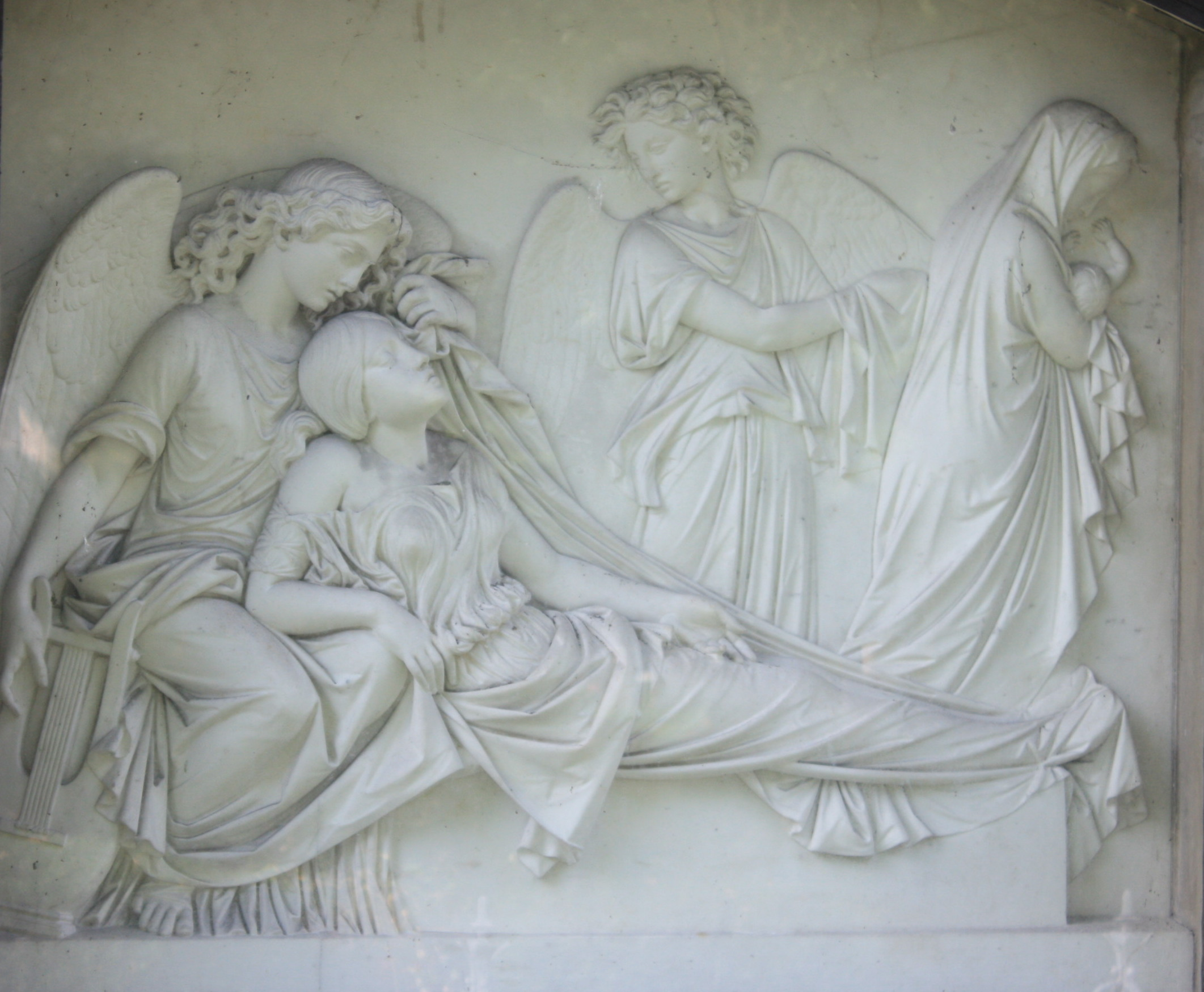 A mother dies and is taken by angels as her new-born child is taken away, A grave from 1863 in Striesener Friedhof in Dresden